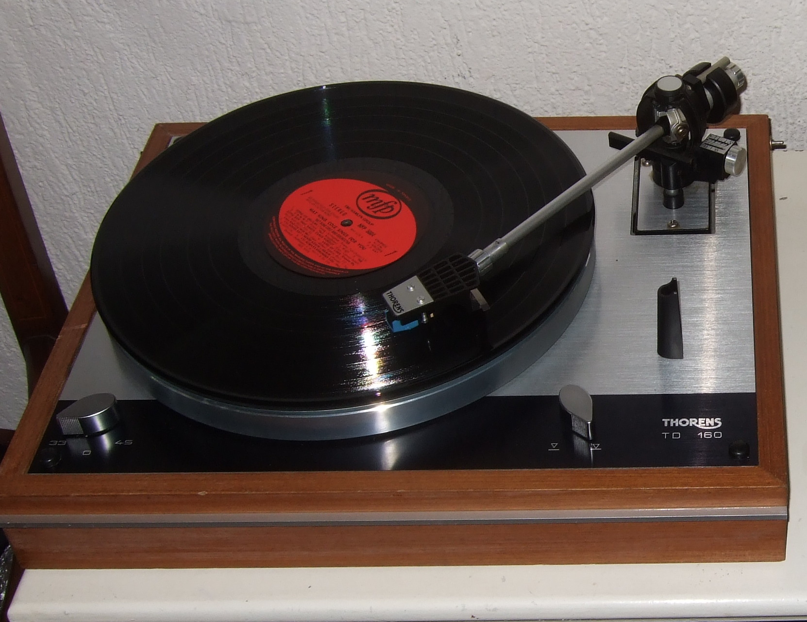 Thorens TD 160